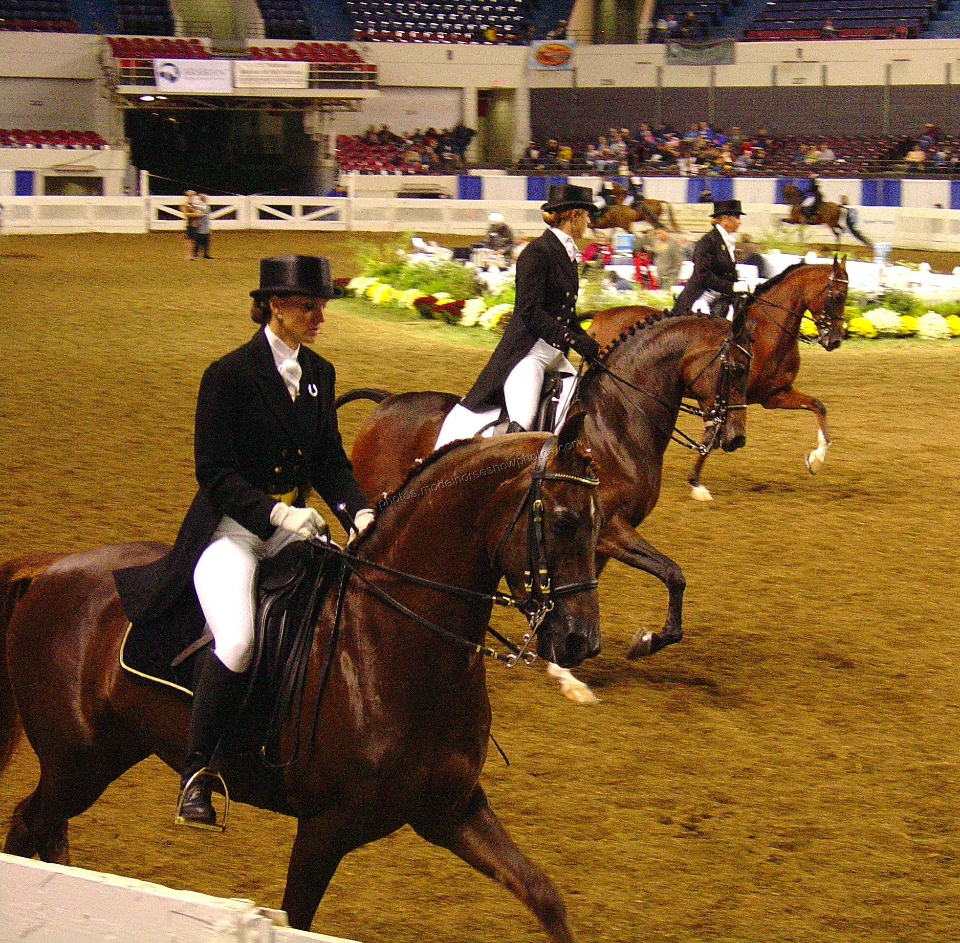 Photo By Heather Moreton-Abounader